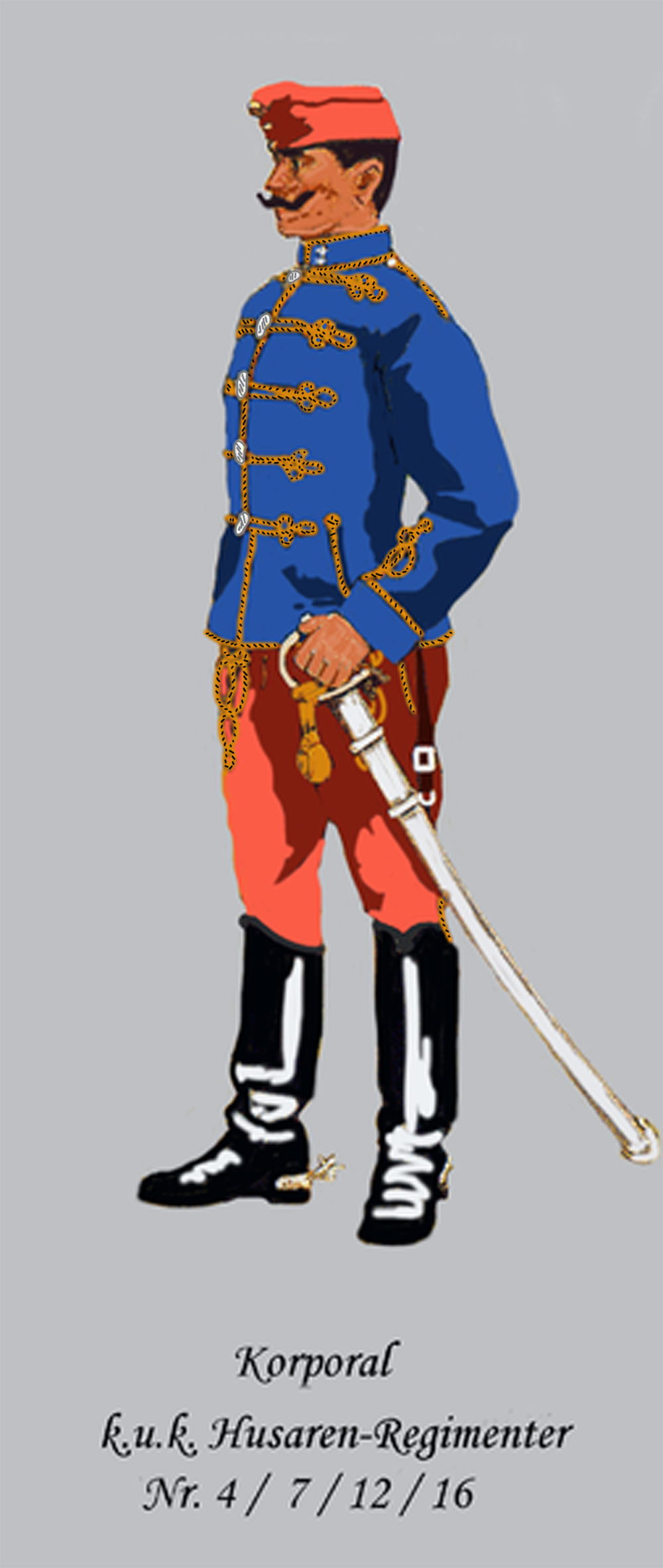 Corporal of the 4th, 7th, 12th or 16th Austria-Hungarian Hussars-Regiment in service dress. So in use until about 1916